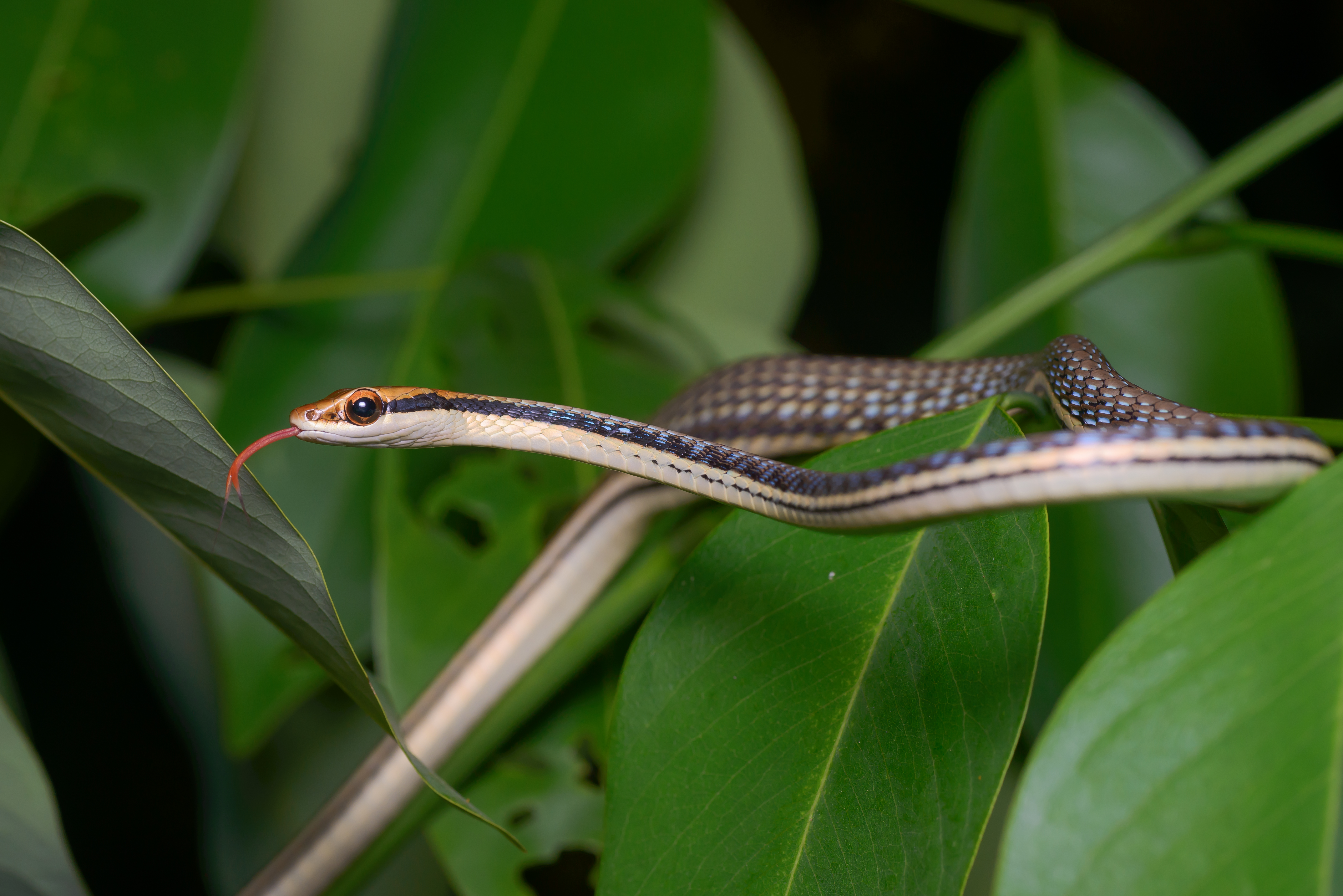 Dendrelaphis pictus - Kaeng Krachan District, Phetchaburi, Thailand Photo by Thai National Parks